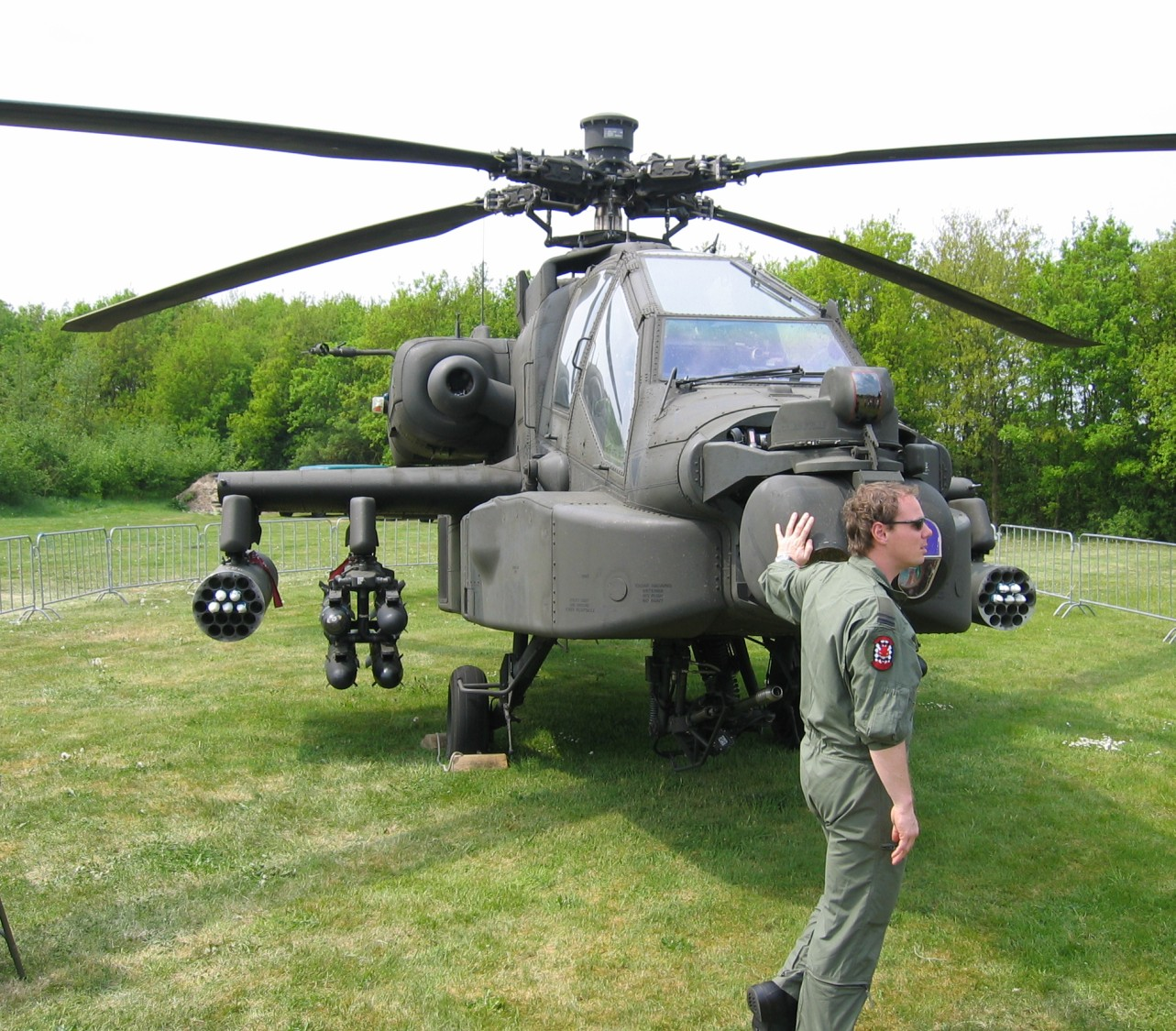 AH-64 Apache with pilot